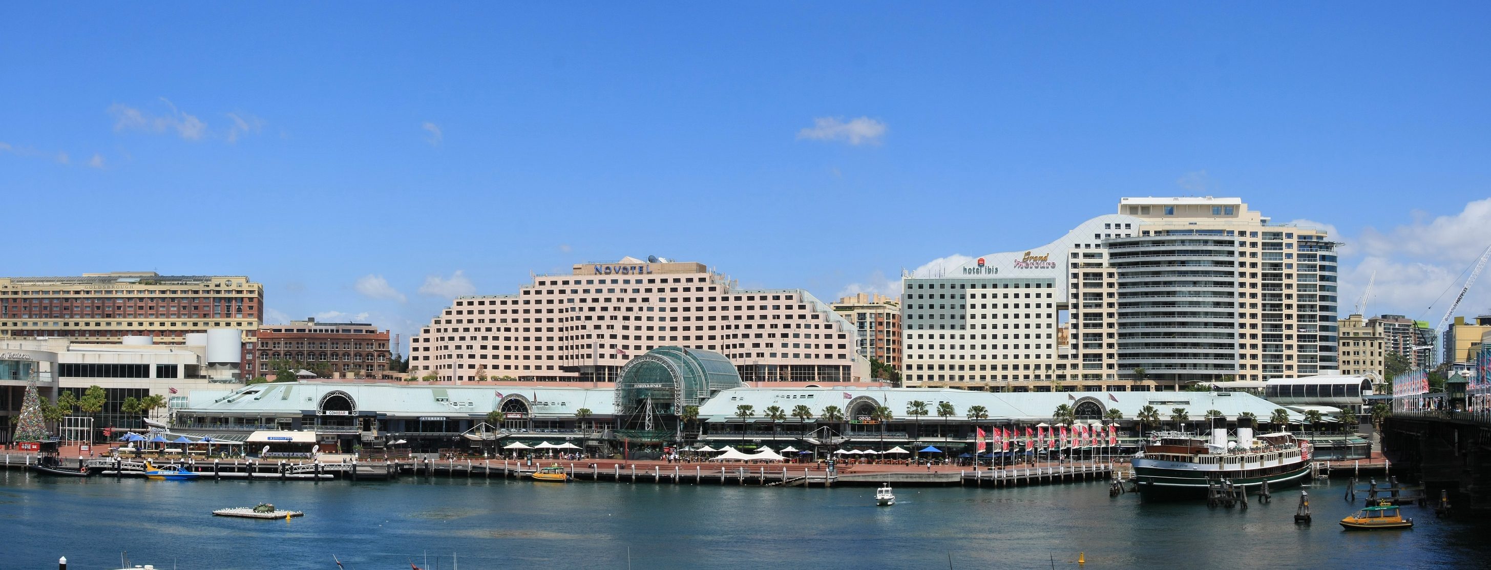 Darling Harbour New South Wales. Taken from the Prymont Bridge